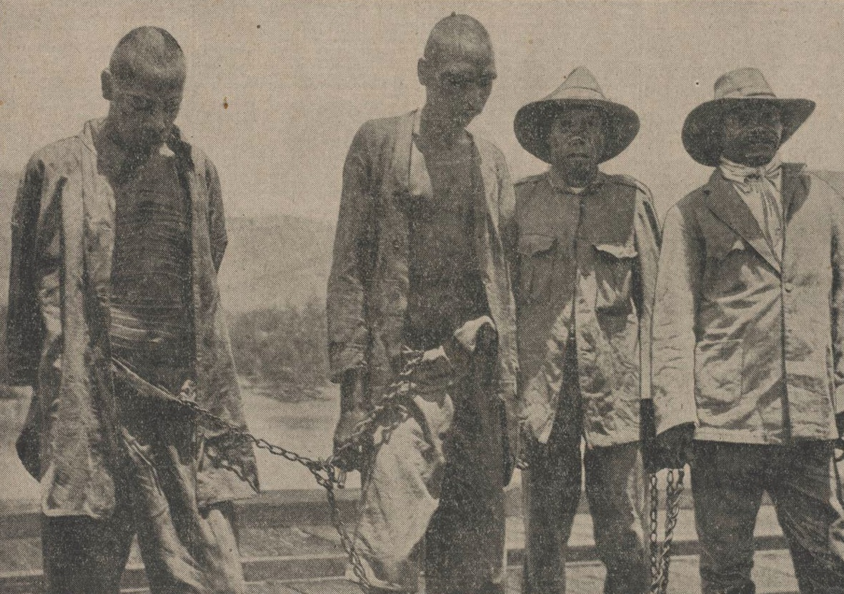 Lumbia. Photographer unknown, 1926. From ‘Natives Under Sentence of Death and Two Black Trackers’